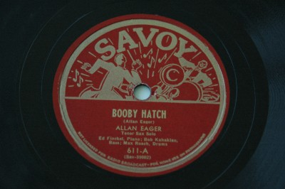 Allen eager bobby hatch shellack